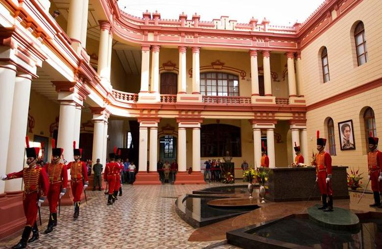 Tomb Hugo Chavez, Caracas Venezuela